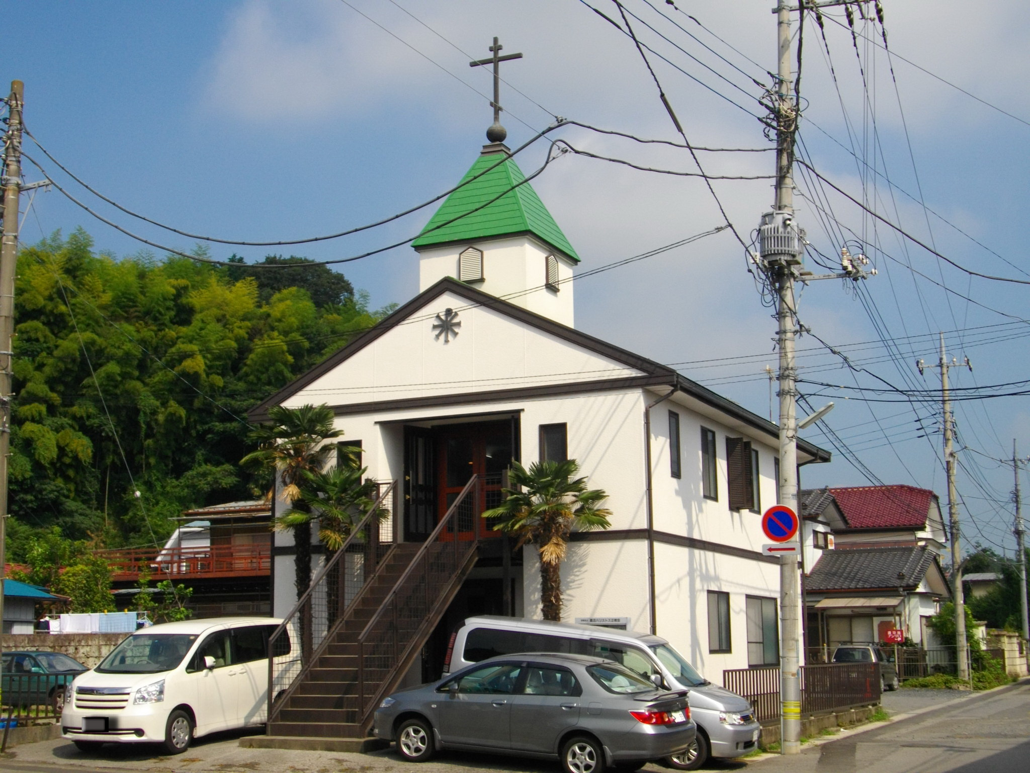 Exterior of the Orthodox Church in Kanuma, Tochigi, belonging to the Autonomous Orthodox Church in Japan.